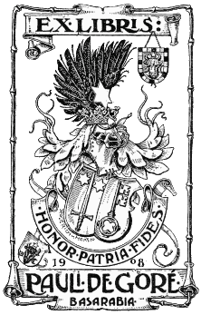 Ex Libris with the CoA of Paul Gore.